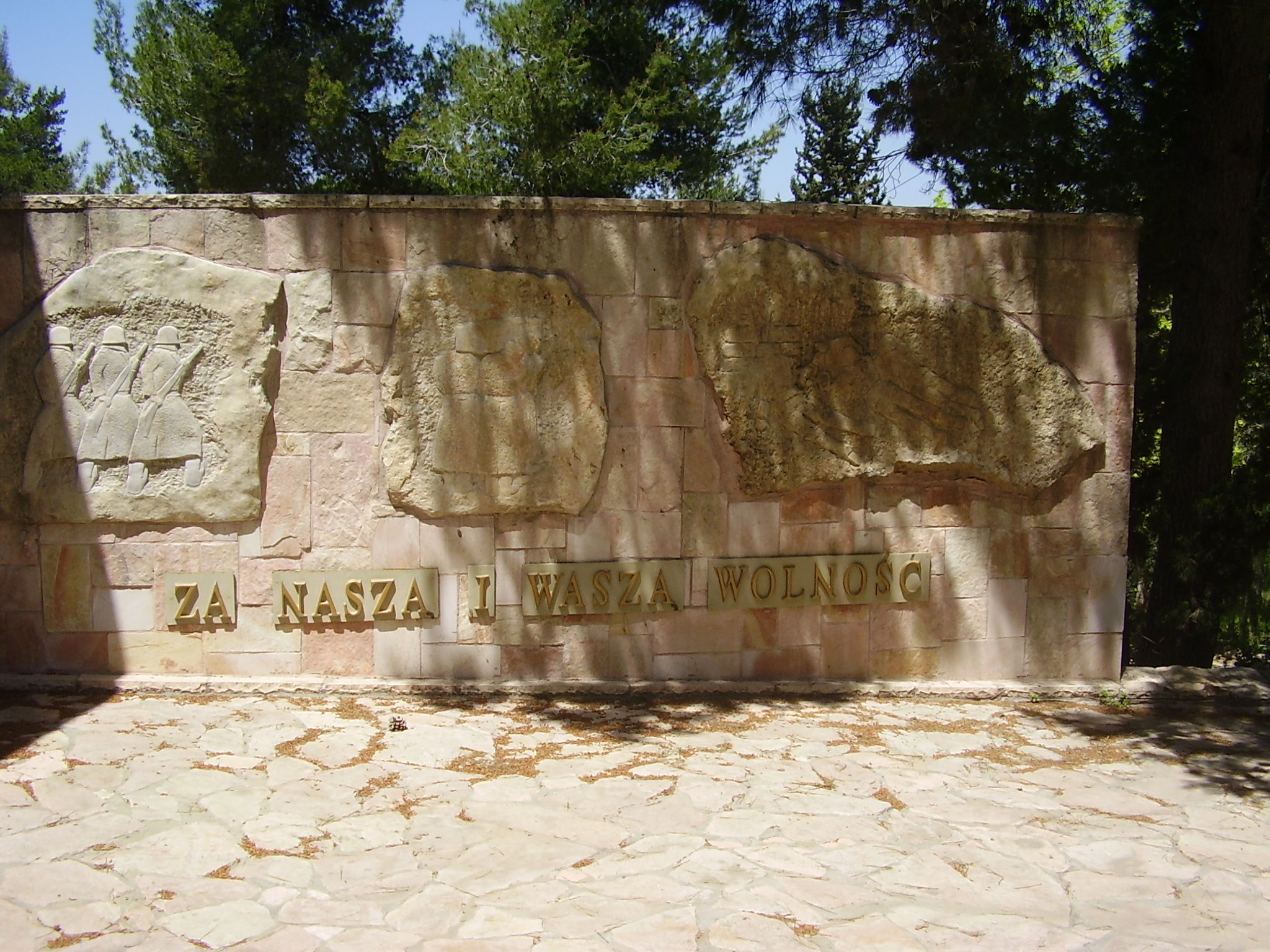 monument to fallen jewish soldiers in the polish army during second world war